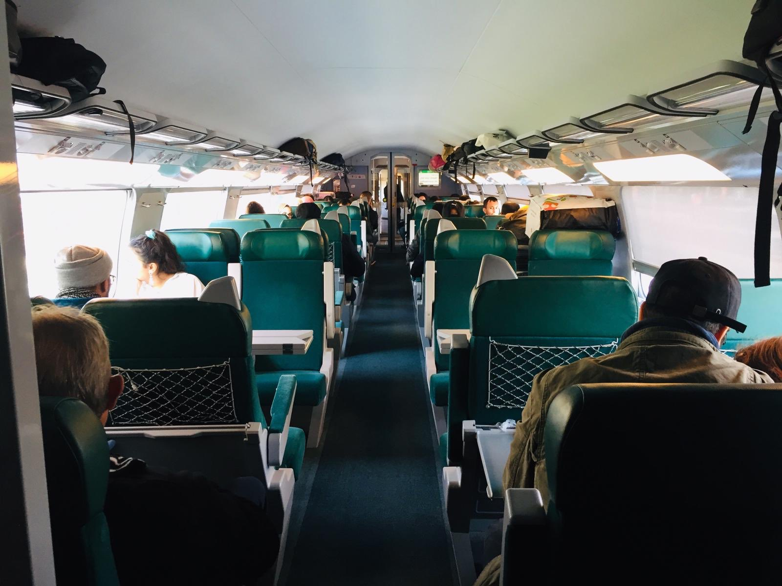 ONCF's Al-Boraq second class